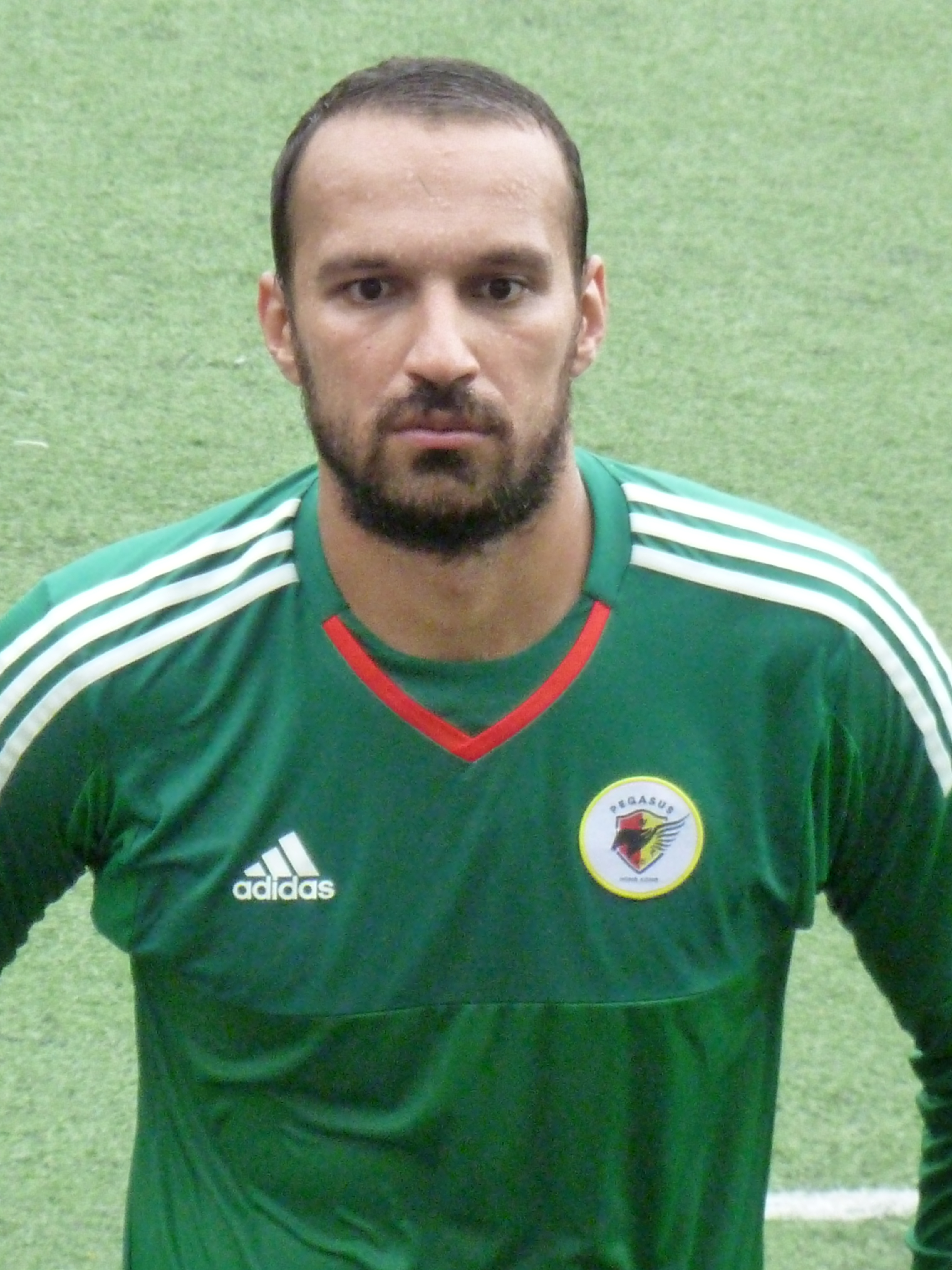 Kristijan Naumovski (14 Aug 2015, Friendly Match, Pegasus vs Dreams Metro Gallery FC, Shek Kip Mei Park)中文（香港）: 基斯贊 (14 Aug 2015, 友賽, 飛馬 vs 夢想駿其, 石硤尾公園)